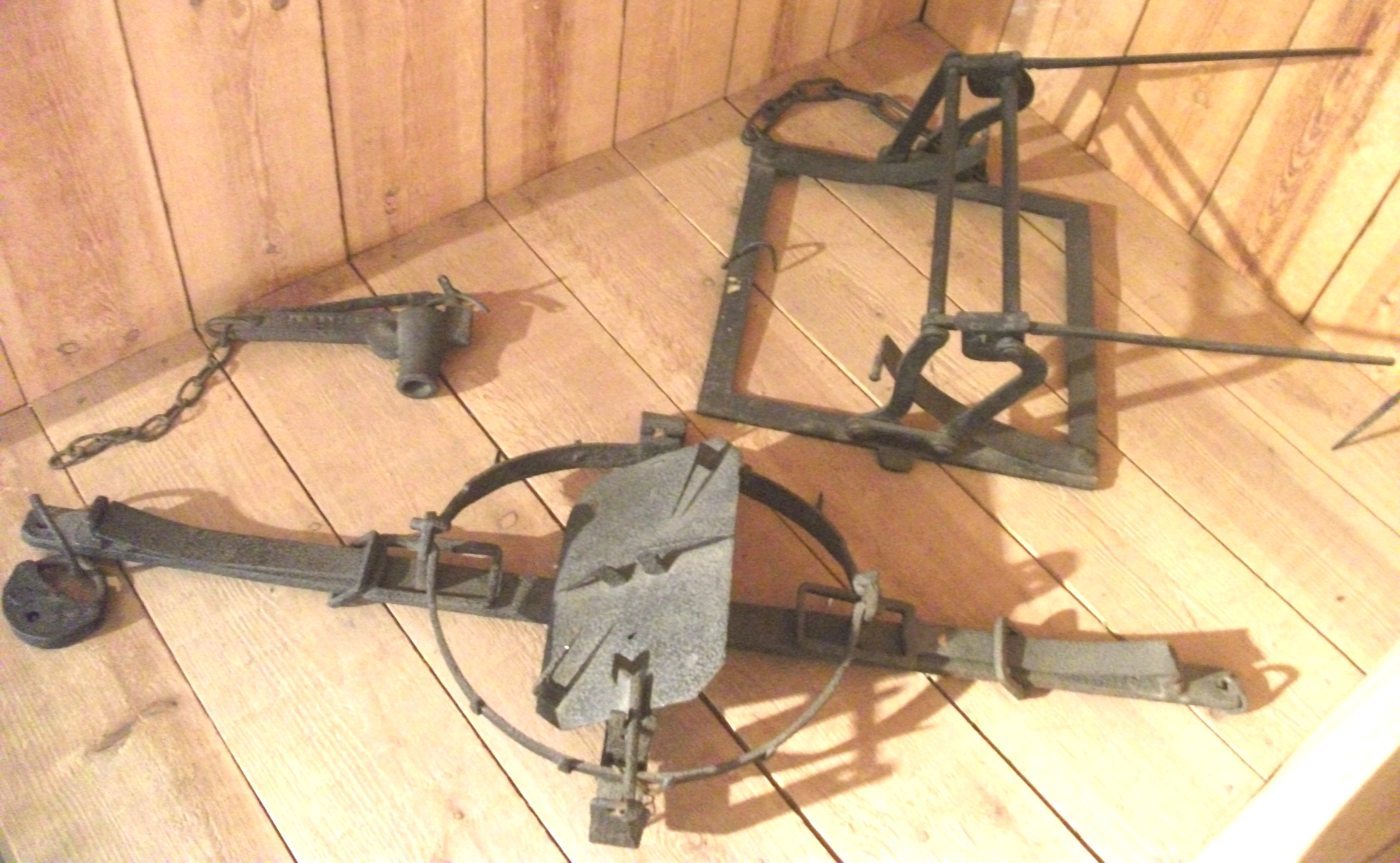 A spring gun and 2 mantraps, all from the 19th century, on display in Bedford Museum. One mantrap has spikes and is intended (as is the spring gun) to cause serious injury. The other is a "humane" mantrap without spikes and with jaws intended not to close completely.